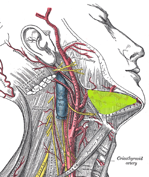 Edit of , cropped and green highlighting to show submandibular space.